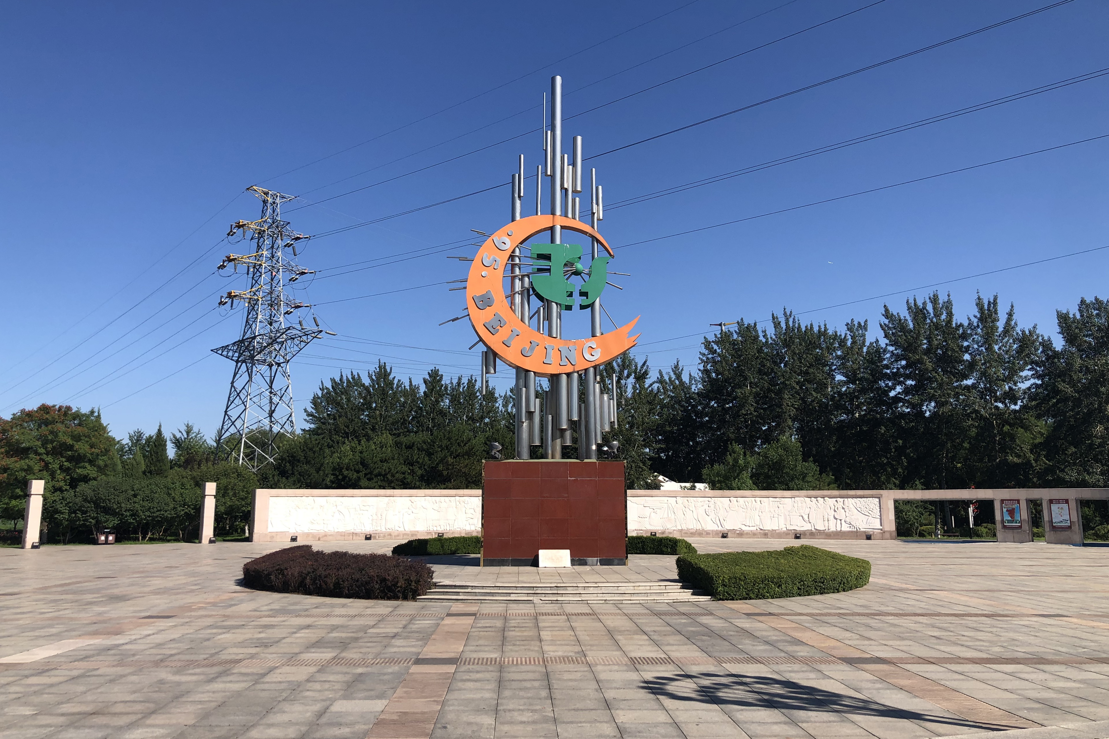 To honour the World Conference on Women in 1995 (whose NGO forum was held in Huairou), the former water park was remodified into a commemorative park in 2004.